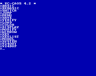 KC-CAOS 4.2, standard operating system of the East German home computer KC 85/4, manufactured by the VEB Mikroelektronik Mühlhausen, 1988